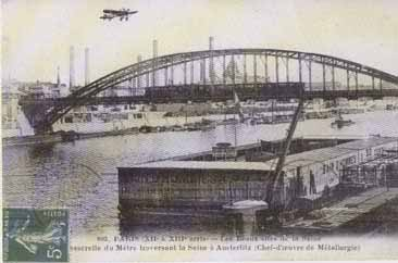 Postcard showing a swimming pool on Port d'Austerlitz (Quai d'Austerlitz, Paris XIIIe arrondissement), the Viaduc d'Austerlitz (1903-1904) and the factories on Quai de la Rapée (Paris, XIIe arrondissement).